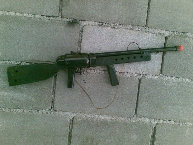 a variant of marble gun Tagalog: isang uri ng holen gun Winaray : usa nga holen gun